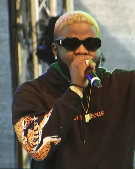 Sakles performing "Shaku Shaku" at the 24th edition of the Koroga Festival